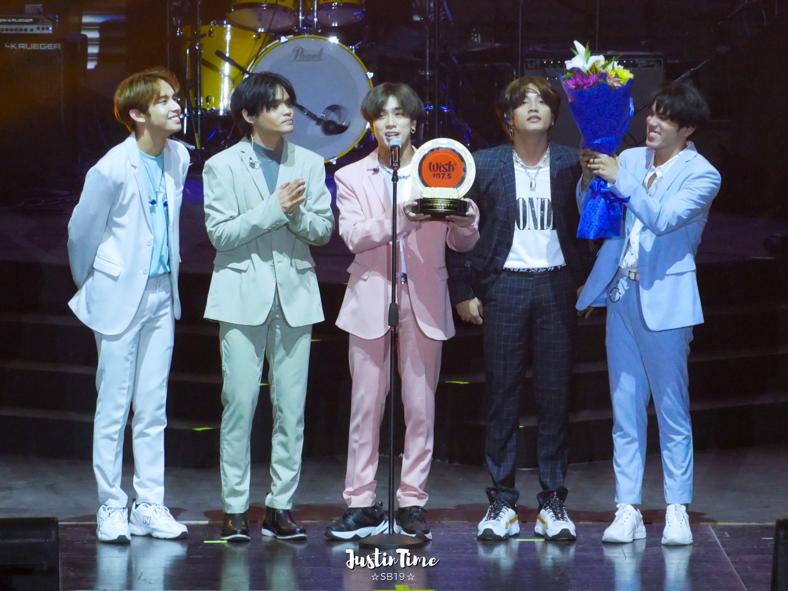 SB19 at 2020 Wish Music Awards